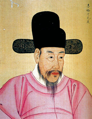 Ohri Yi Won-ik, 1590